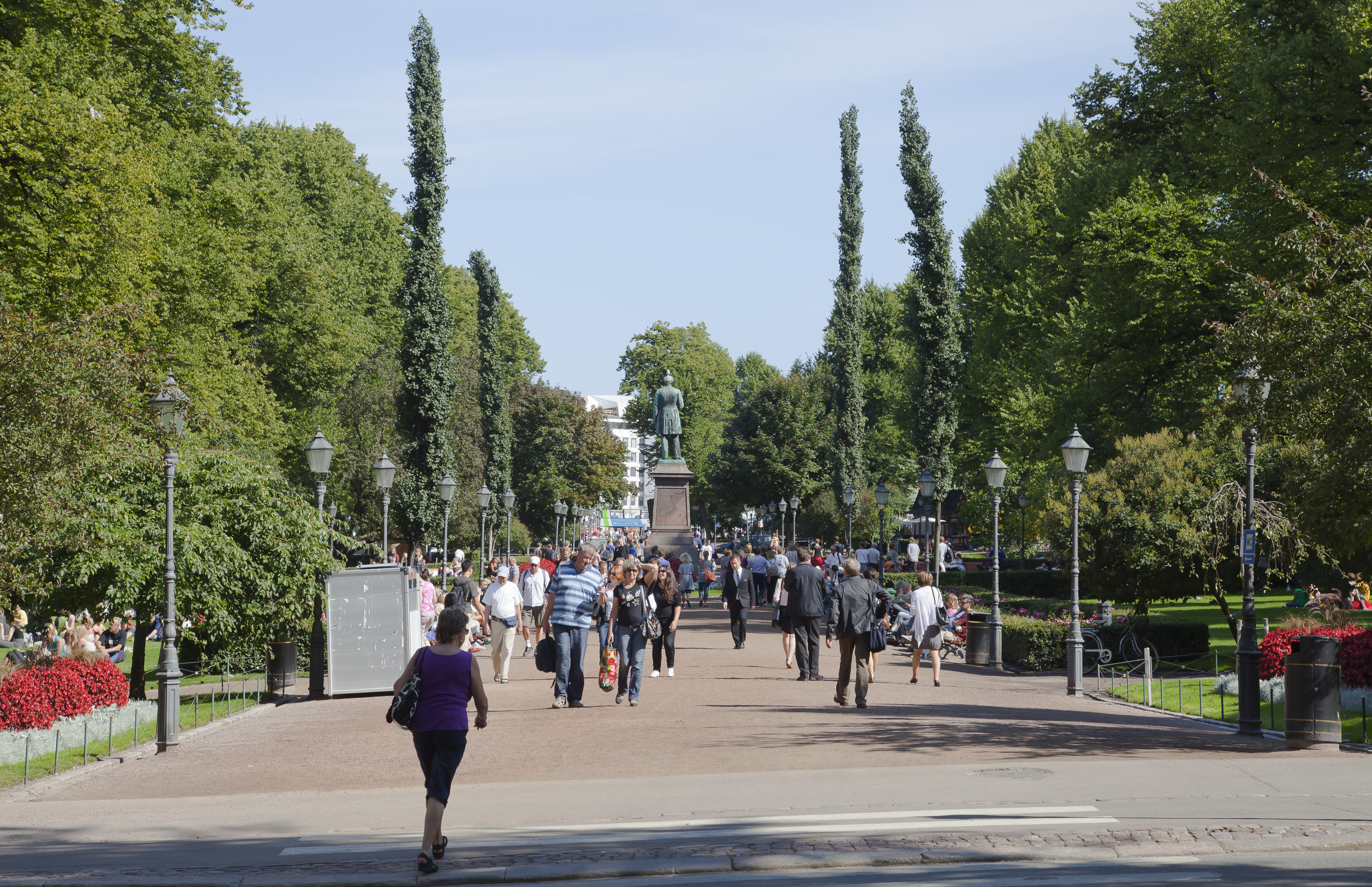 Esplanadi, Helsinki, Finnland